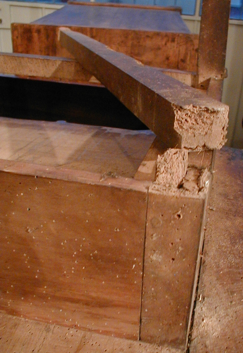 demage caused by Common furniture beetle